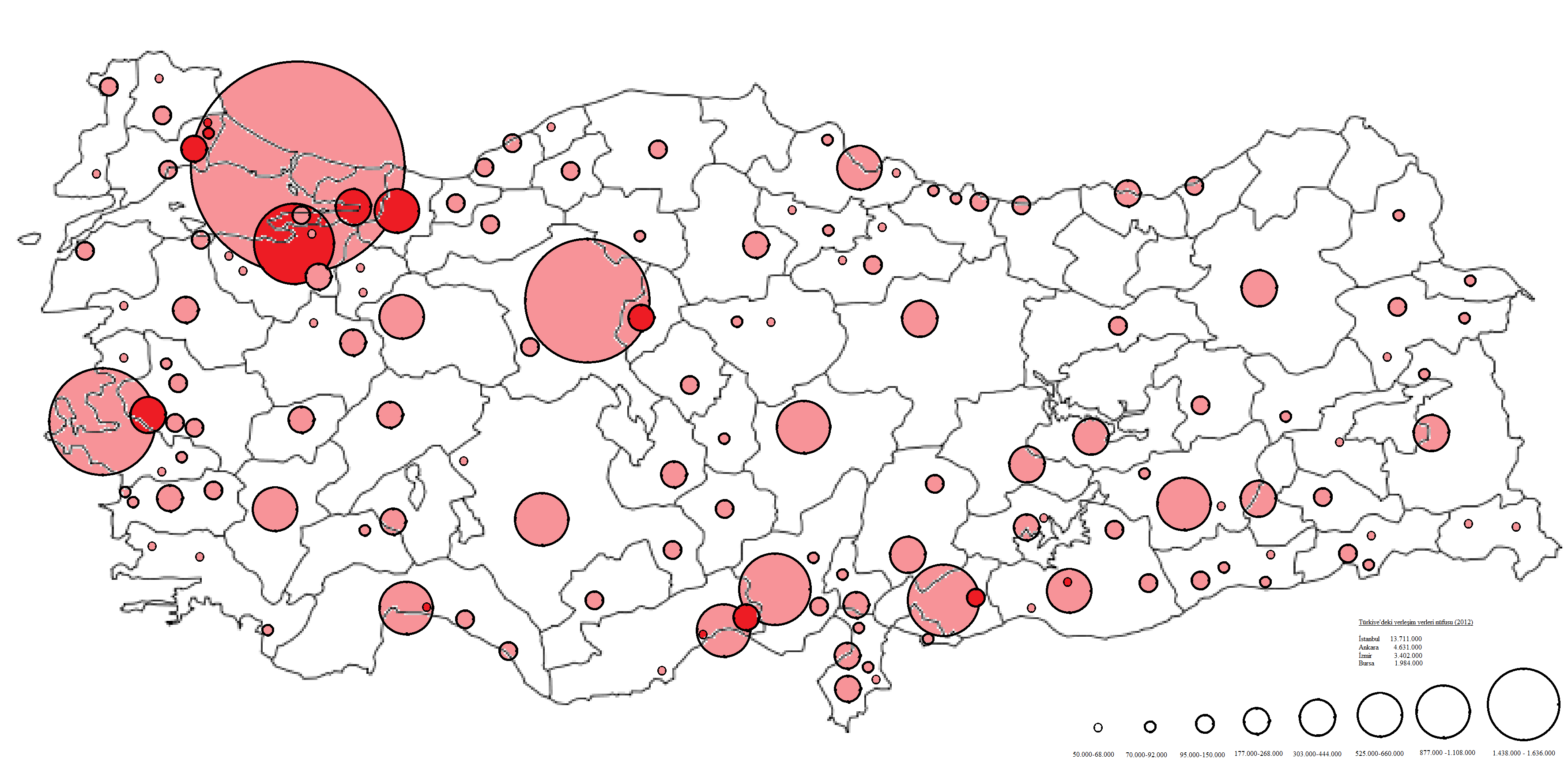 Proportional circle map of the population of towns and cities in Turkey in 2012. Based on: [1]